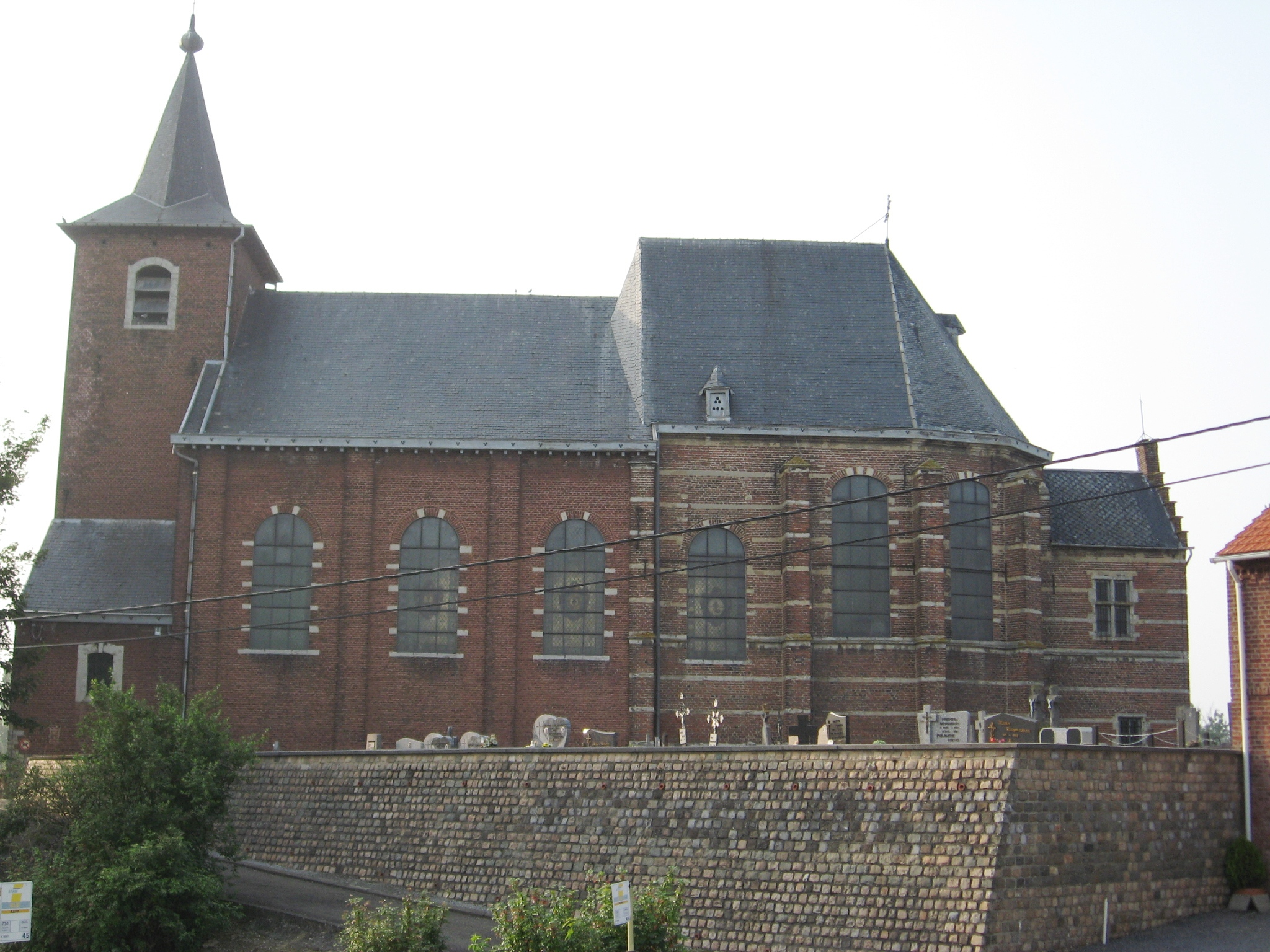 Church of Mary Magdalene in Neerlanden, Landen, Flemish Brabant, Belgium